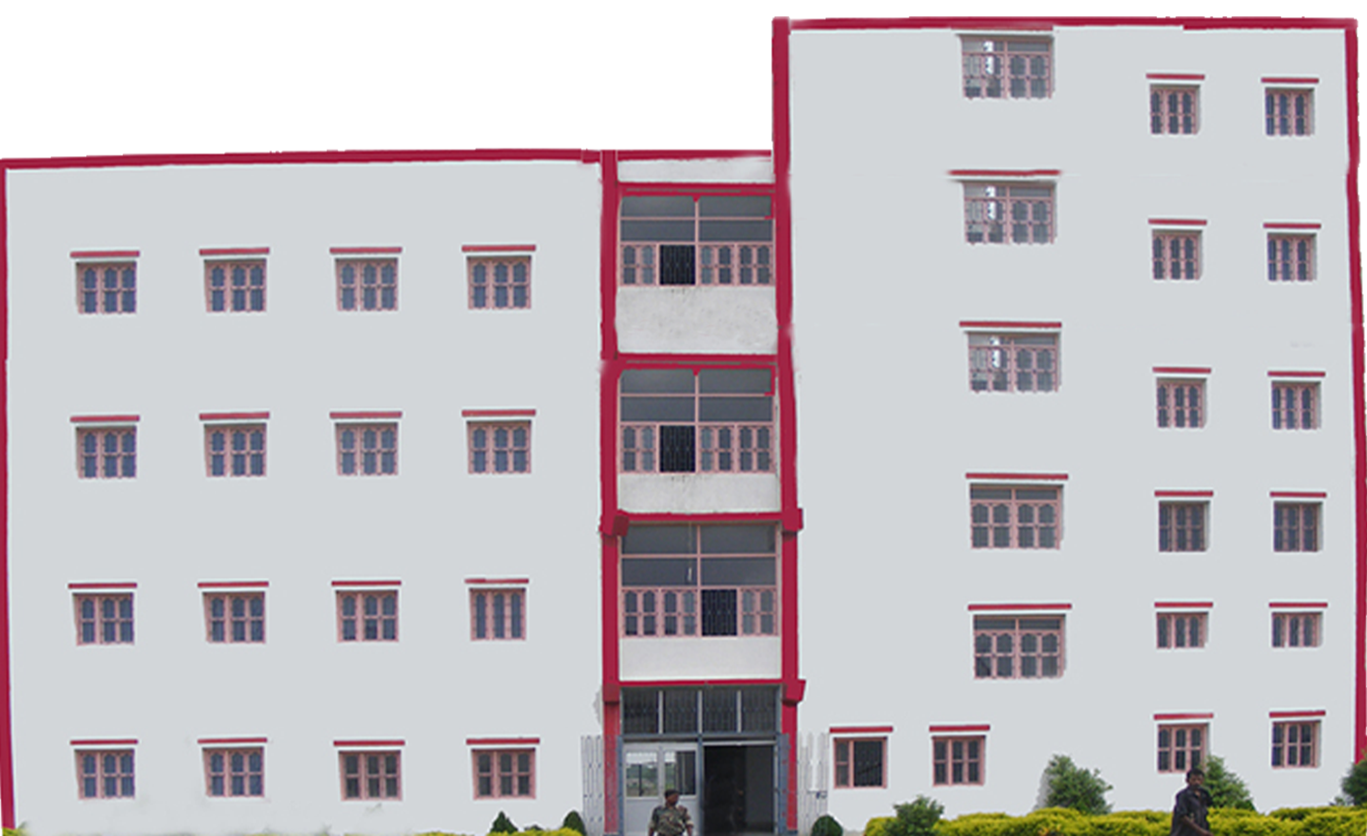 Buddha Institute of Technology one of the Private Institute of BIT Group of Institutions for Polytechnic or Diploma College.